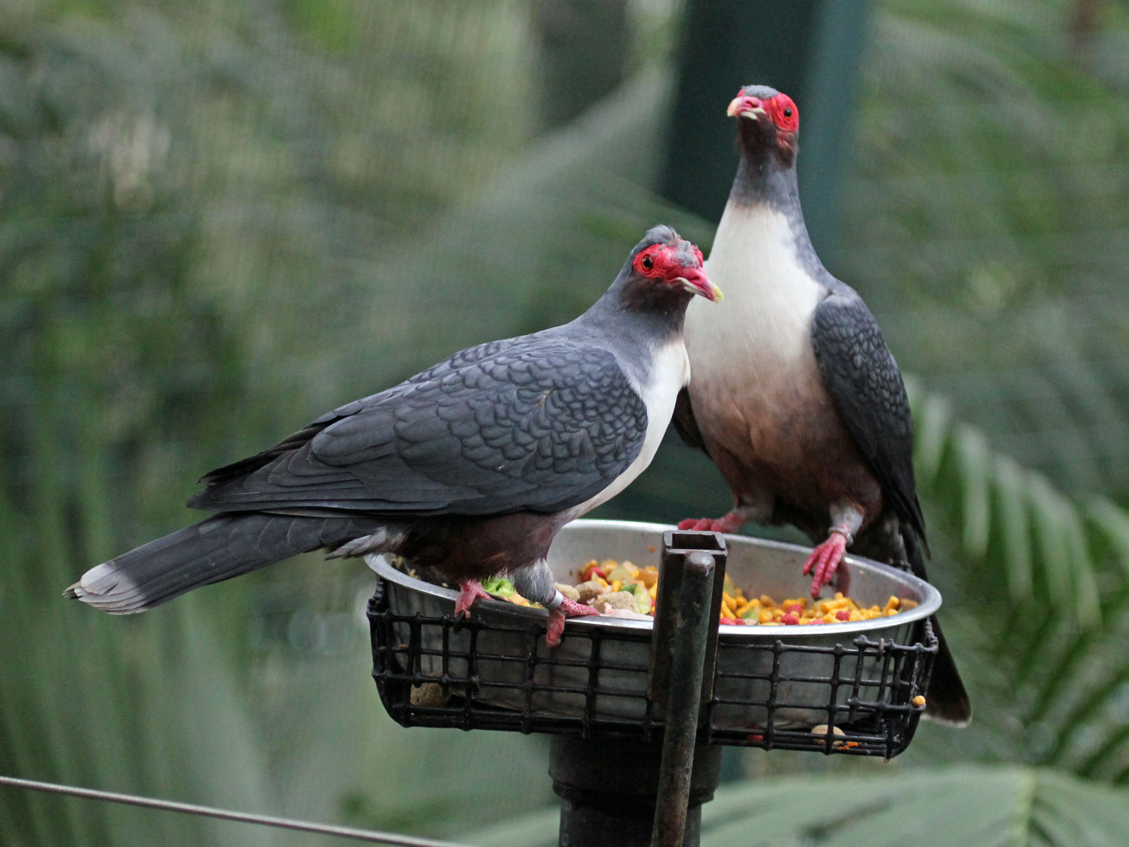 Papuan Mountain Pigeon (Gymnophaps albertisii) - San Diego Zoo, California